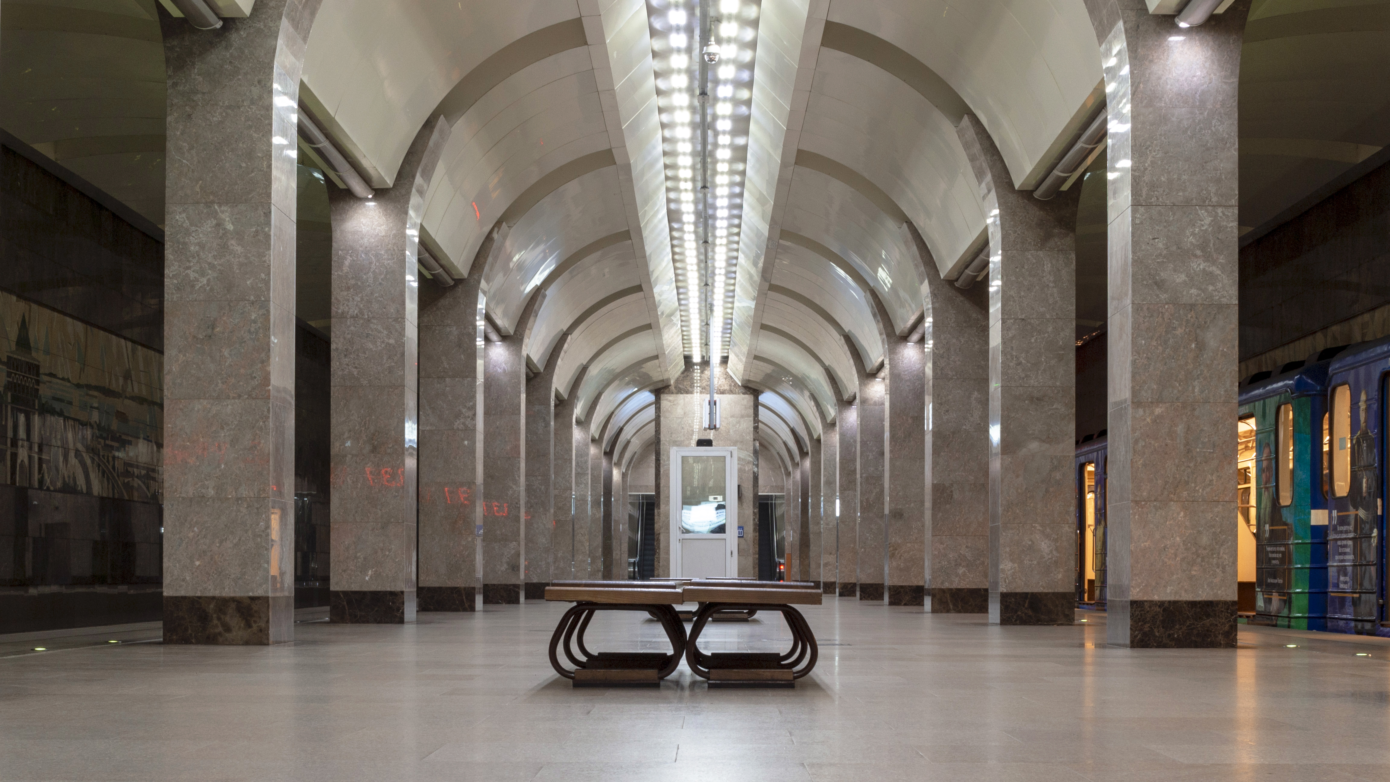 Gorkovskaya metro station in Nizhny Novgorod, Russia.